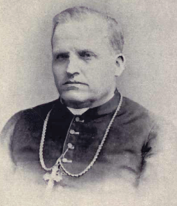 James Charles McDonald Source: The Canadian album : men of Canada; or, Success by example, in religion, patriotism, business, law, medicine, education and agriculture; containing portraits of some of Canada's chief business men, statesmen, farmers, men of the learned professions, and others; also, an authentic sketch of their lives; object lessons for the present generation and examples to posterity (Volume 3) (1891-1896) Creator:Cochrane, William, 1831-1898 Creator:Hopkins, J. Castell (John Castell), 1864-1923 Publisher:Brantford, Ont. : Bradley, Garretson & Co. Date:1891-1896